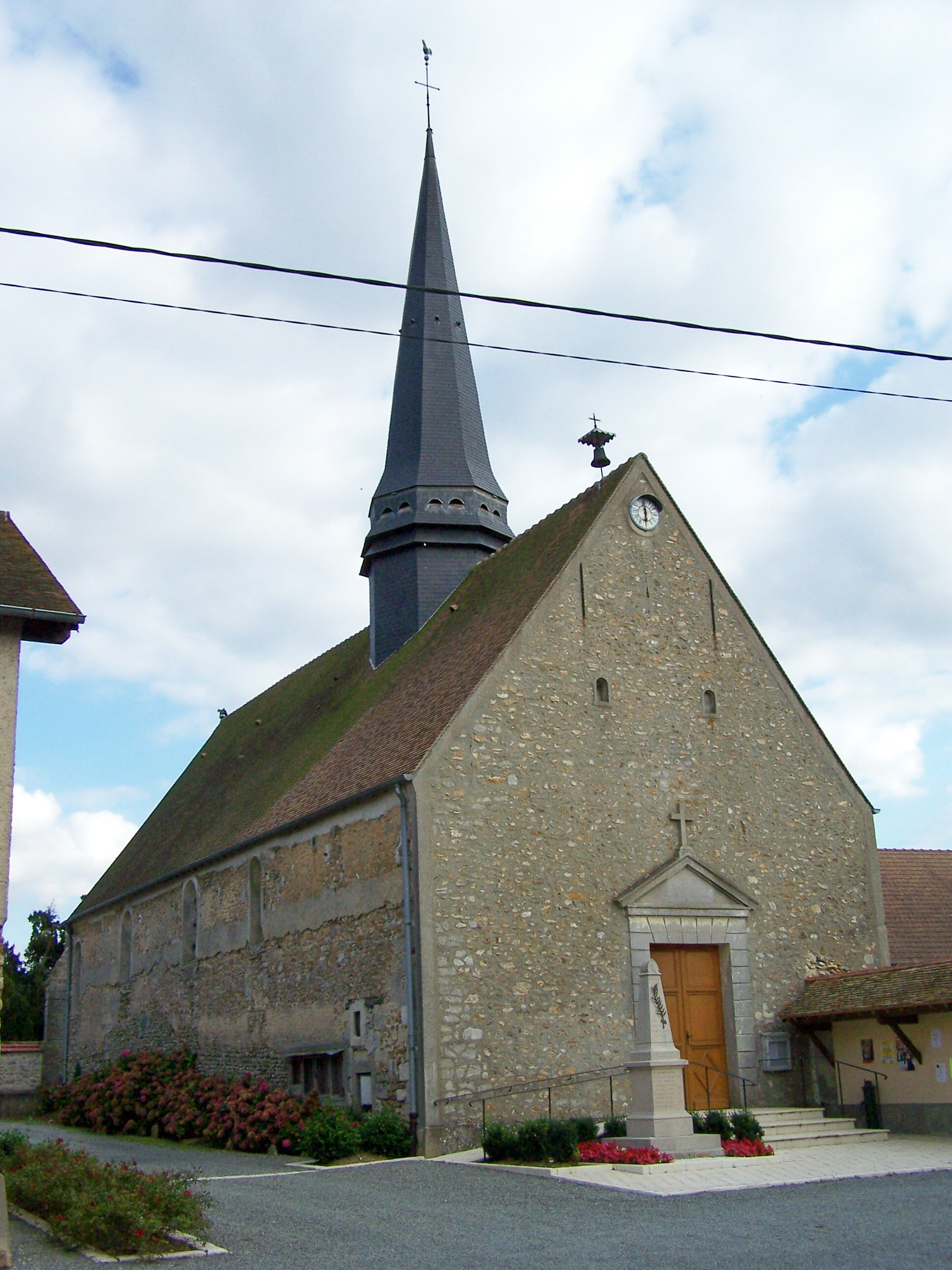 Church Saint-Martin of Saint-Martin-des-Champs (Yvelines, France)